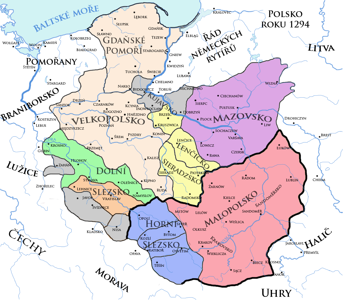 Political situation in Poland around 1291. In Czech language.